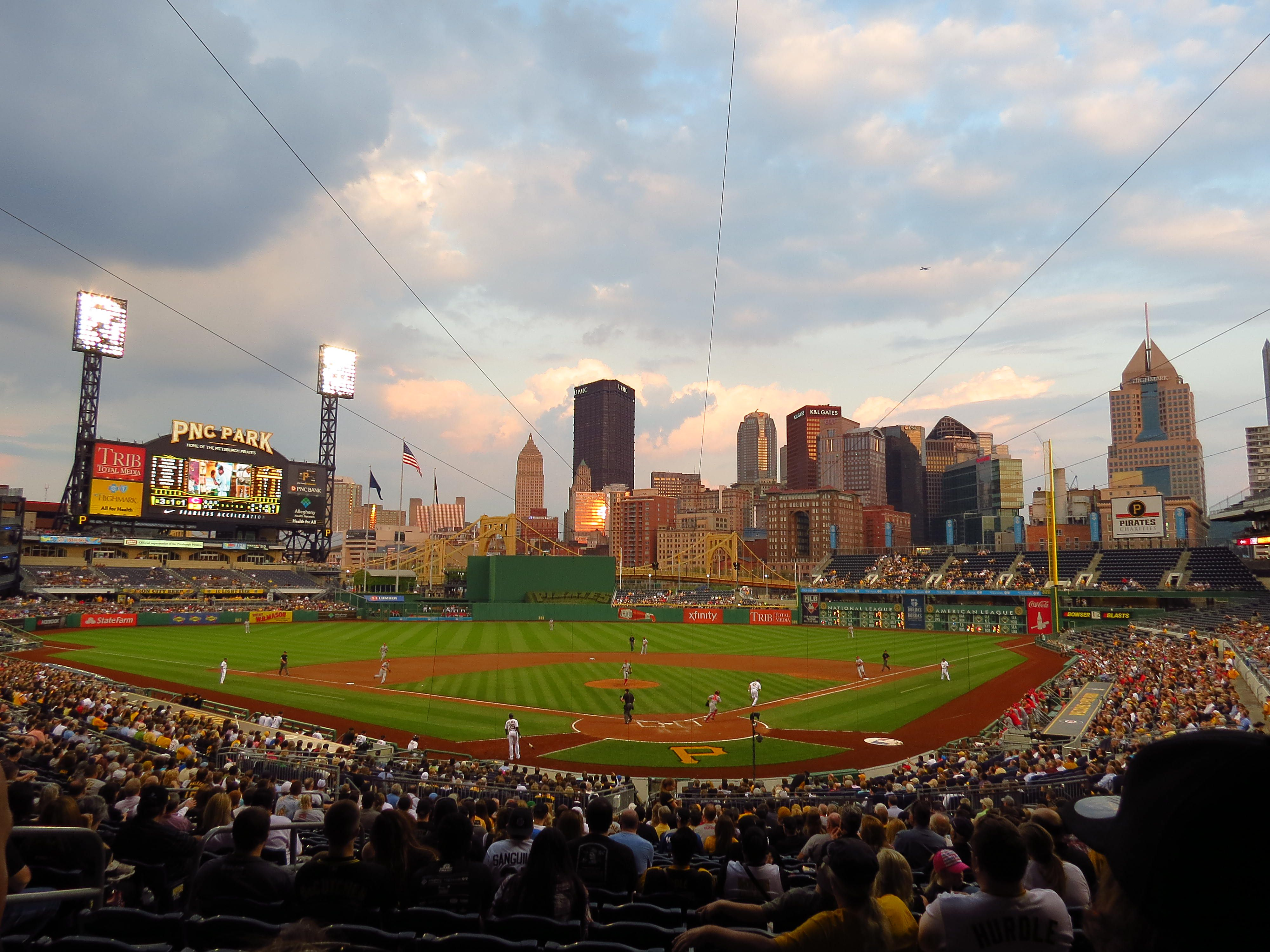 Cincinnati Reds at Pittsburgh Pirates